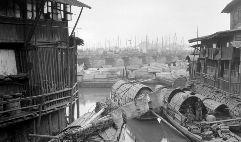 Bridge of Ten Thousand Ages and Sampans, Foochow